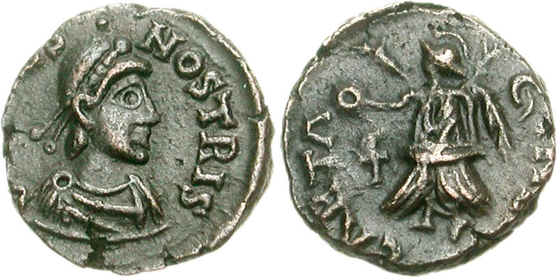 Bonifatius Comes Africae 422-431CE. Æ 10mm (1.11 g, 6h). Carthage mint. Struck AD 423-425. D[OMINI]S • NOSTRIS, pearl-diademed, draped, and cuirassed bust right / CΛRTΛ GINE [P P], Victory, wearing helmet, advancing left, holding wreath in extended right hand and cradling palm in left arm; palm over right shoulder; cross to left.